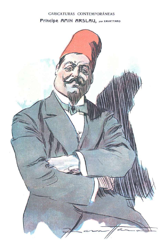 Caricature of Emin Arslan by “Zavattaro” (Mario Zavattaro, 1876-1932), on “Caras y Caretas” magazine, 11/12/1910, p. 68.